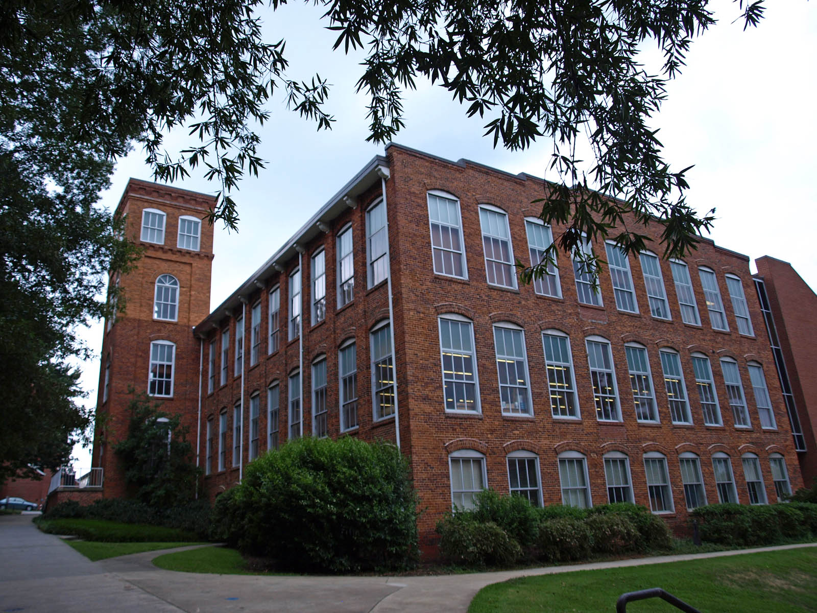 Godfrey Hall (Graphic Communications) at Clemson University in Clemson, South Carolina.